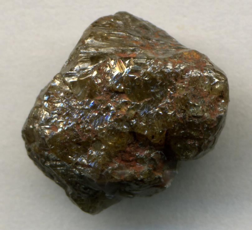 Diamond (1.3 cm across) from Kasai-Oriental Province in central Zaire ("D.R. Congo"). This 7.23 carat, dark-brown diamond mass is a complex aggregate of several smaller diamond crystals. It comes from a late Late Cretaceous (65-79 m.y.) kimberlite pipe in the Mbuji-Mayi Kimberlite Field.